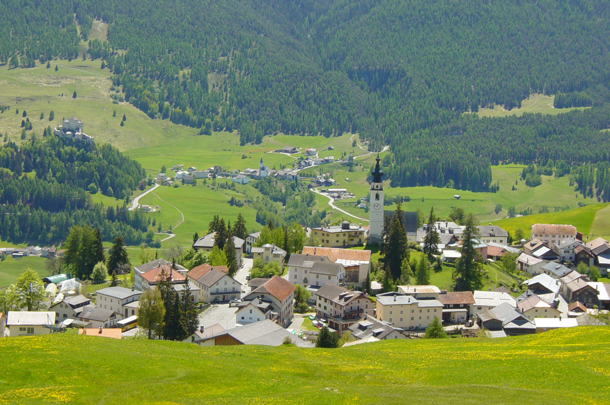 View of Ftan from north with view on castle Tarasp